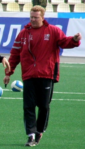 Oleg Kuznetsov as coach of FC Moscow